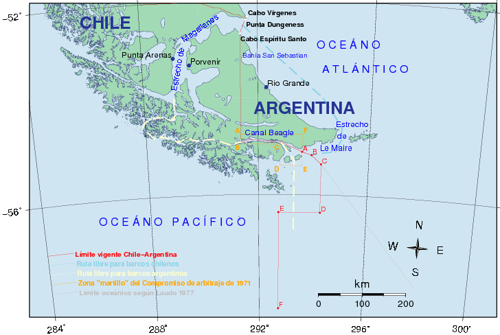 Borderline and navegation rights between Chile and Argentina after the Treaty of 1984